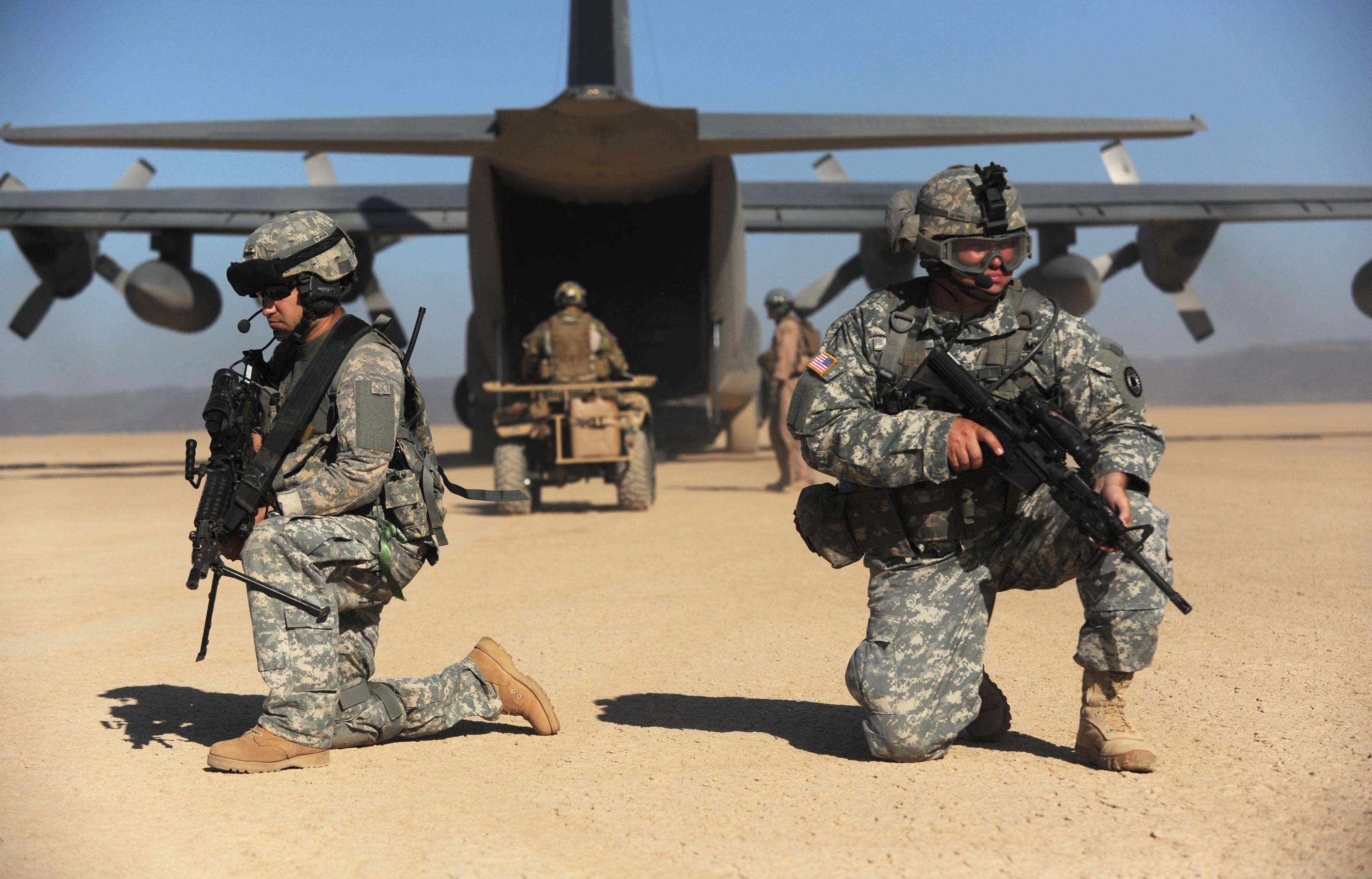 Army Spc. Jason Mosqueda (left) and Sgt. Darel Long, Kansas Army National Guard 2nd Combined Arms Battalion, an HC-130P from the 81st Expeditionary 137th Infantry Regiment, Joint Combat Search and Rescue, provide security for Rescue Squadron during an exercise Feb. 26.